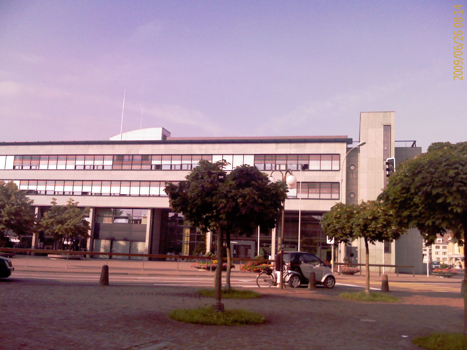 Dübendorf - city hall, canton of Zürich, SwitzerlandEsperanto: Dübendorf - urbodomo, Kantono Zuriko, Svislando